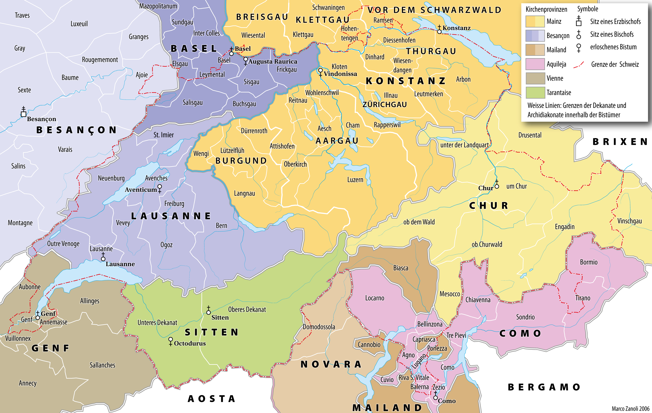 Historical catholic dioceses in Switzerland during the Middle Ages